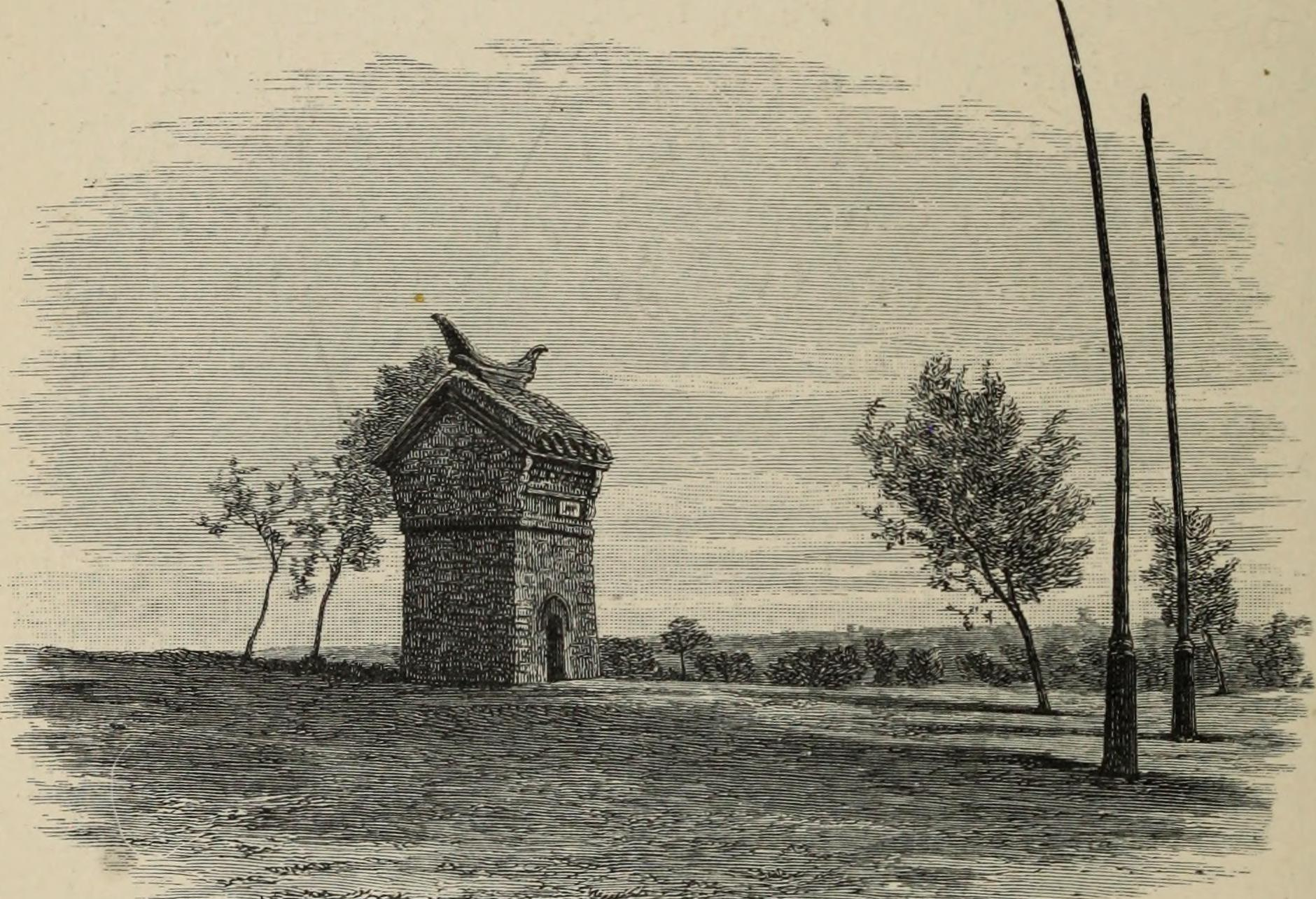 A roadside shrine. Image from page 227 of "The Long White Mountain : or, A journey in Manchuria; with some account of the history, people, administration and religion of that country" (1888). Publisher: London : Longmans. Contributing Library: Robarts - University of Toronto. Digitizing Sponsor: University of Toronto.